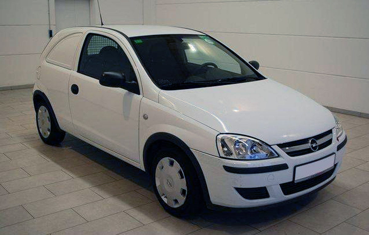 OPEL CORSA C